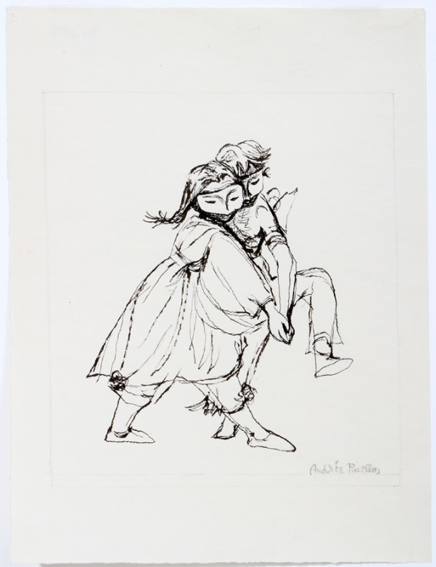 Andrée Ruellan, Masques, sugar lift acquatint, 1951, 7 X 6⅛ inches.